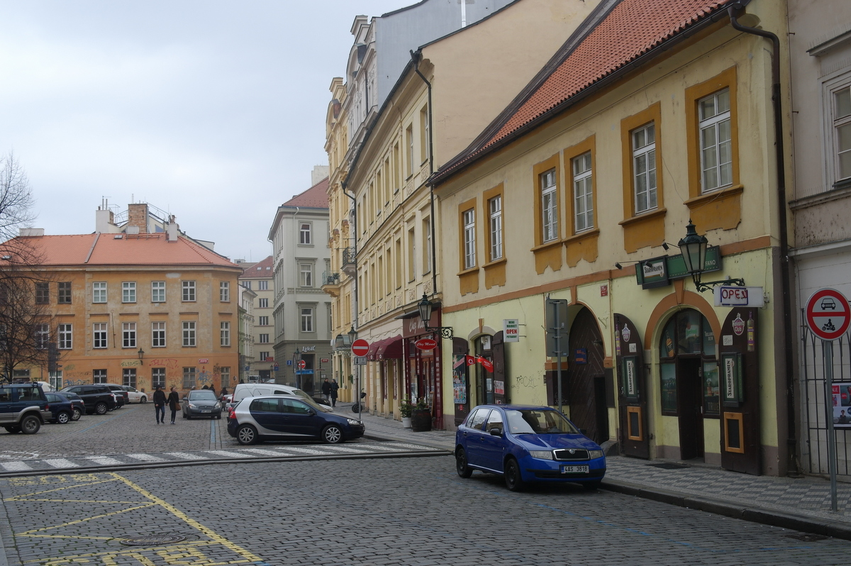 Burgher house, 750/10 Haštalská str. Old Town (Prague), the capital city Prague. View of Haštalské Square.